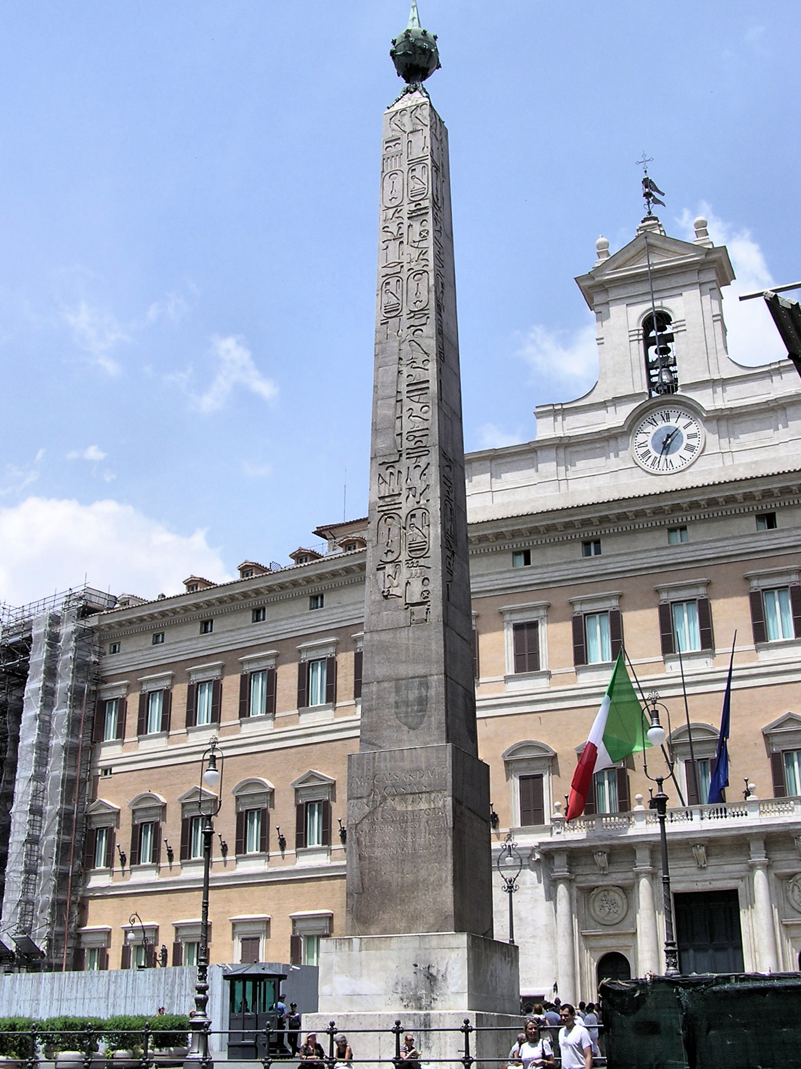 Obelisk of Montecitorio, in Piazza Montecitorio, Rome, Italy.